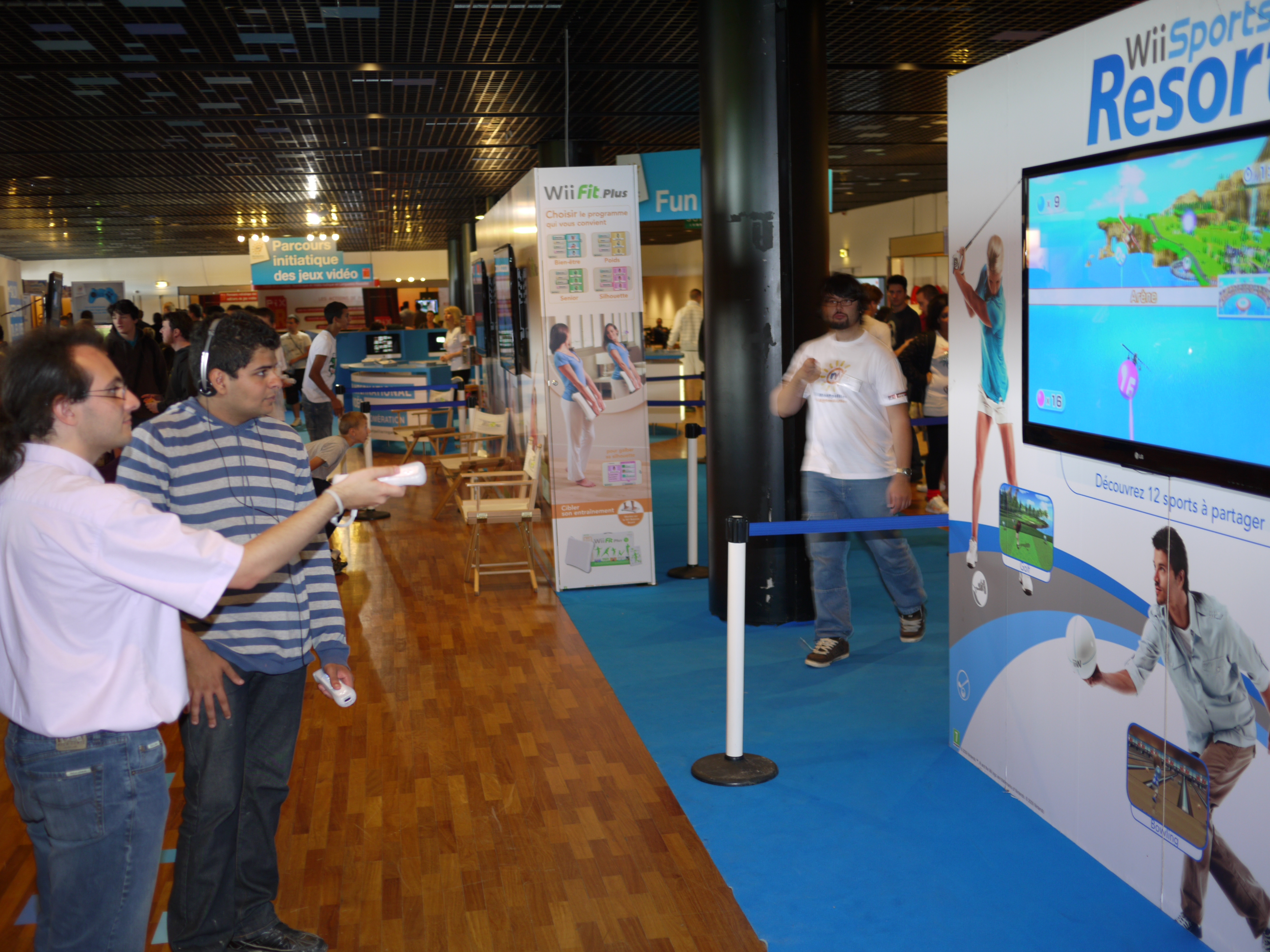 Montpellier in Game Festival 2010